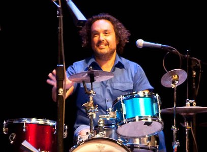 Jason Finn performing at W00tstock 3.0 in Downtown San Diego, CA, U.S.